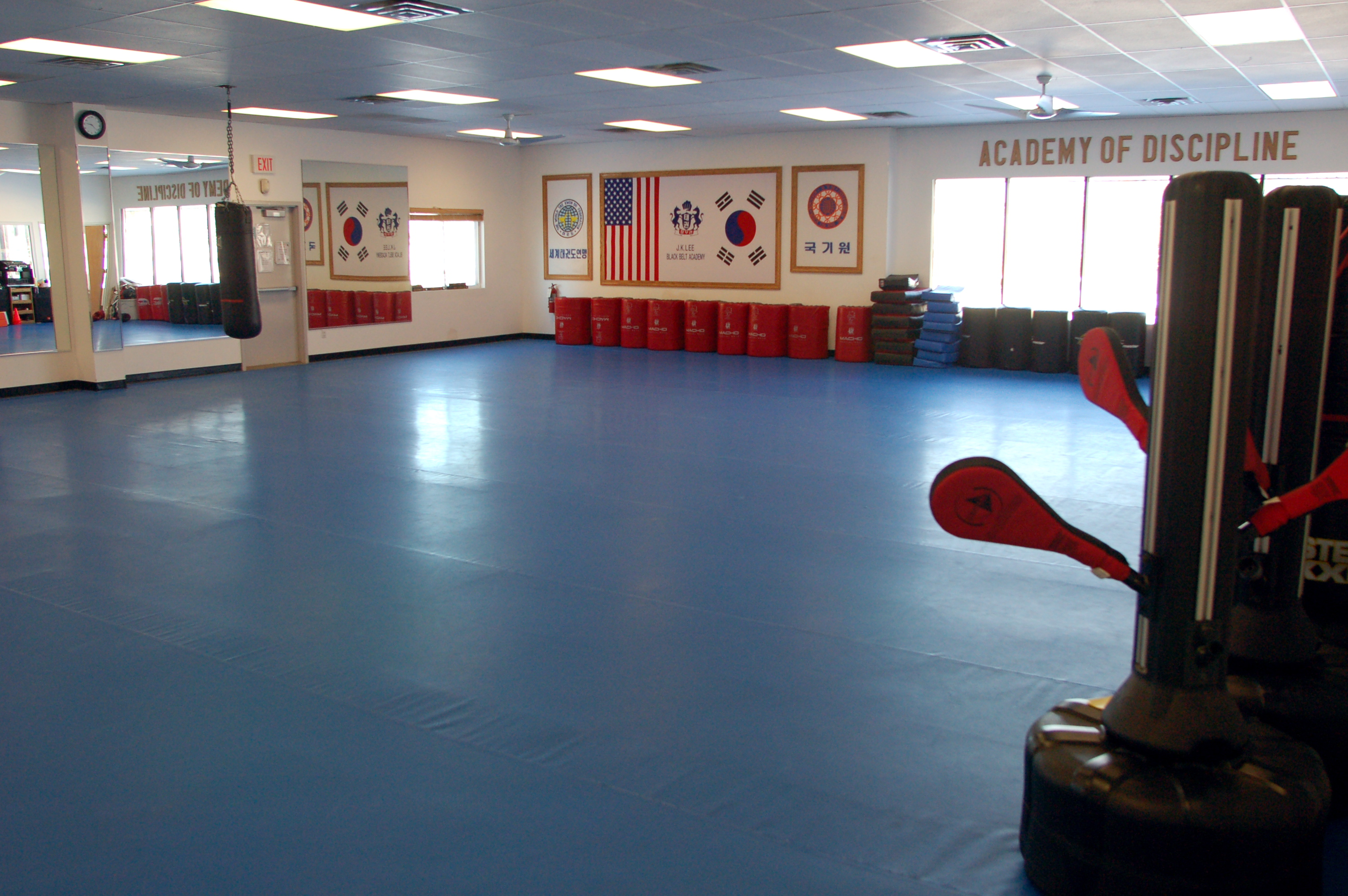 Academy of discipline